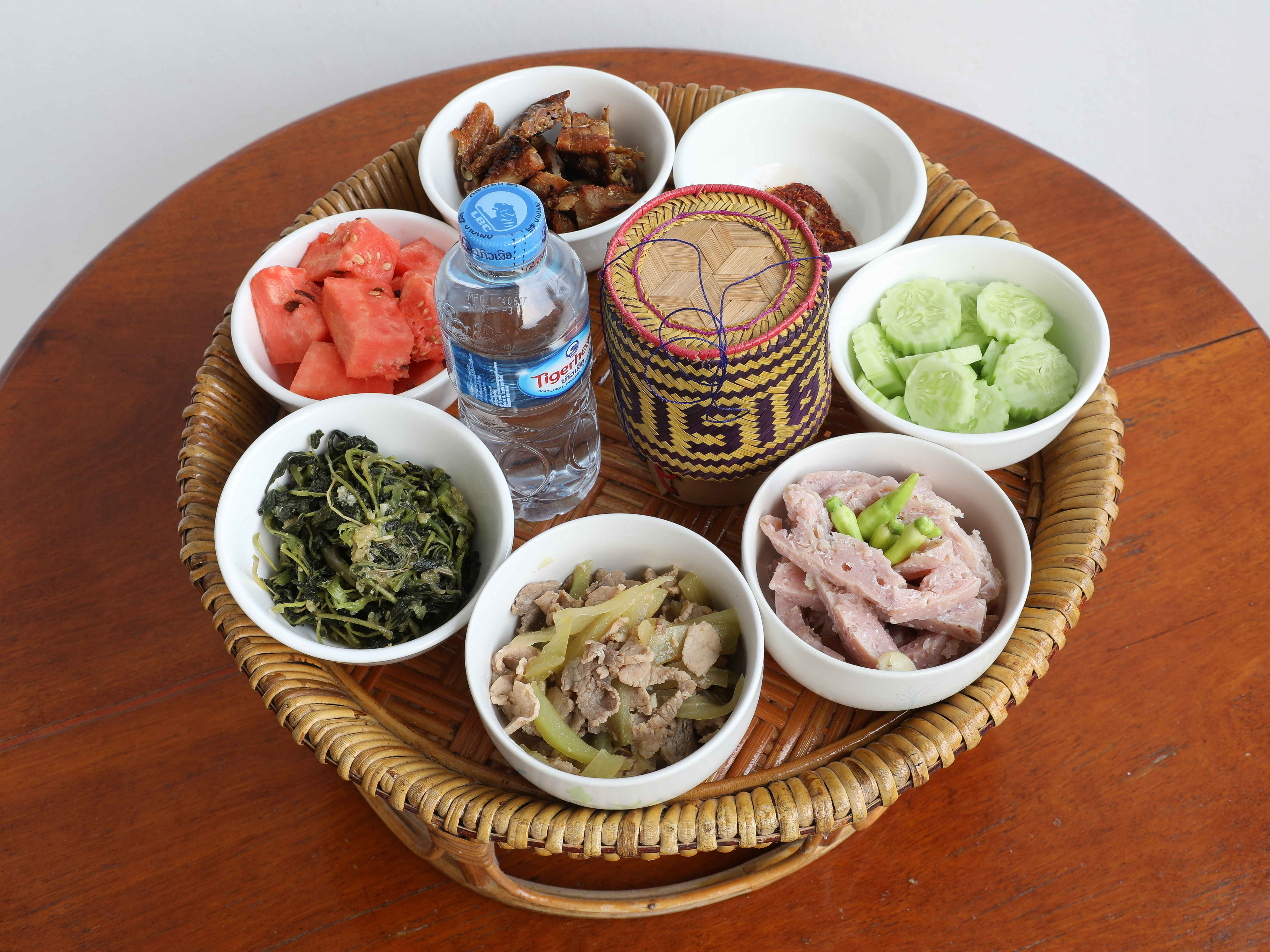 Wicker tray with bowls of food cooked for the Buddhist monks of the temple of Don Det, Laos. Among the dishes, there are pieces of watermelon, boiled green leaves (like spinach), pork cooked with quarters of chayote, pieces of fermented fish and green chilis, cucumber, a red chili sauce, and grilled chicken. A bottle of mineral water also comes with that tray, and the straw basket in the center contains fresh sticky rice. Traditionally, these preparations are made by the locals in their own kitchens, and then delivered early morning to the monks, eating together in the temple with the people (but before them).